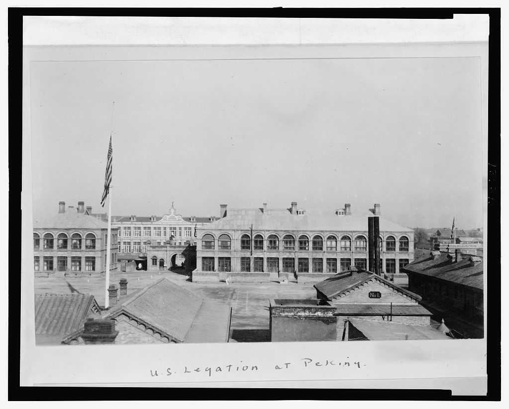 Photograph shows aerial view of the U.S. Legation compound, Beijing, China.